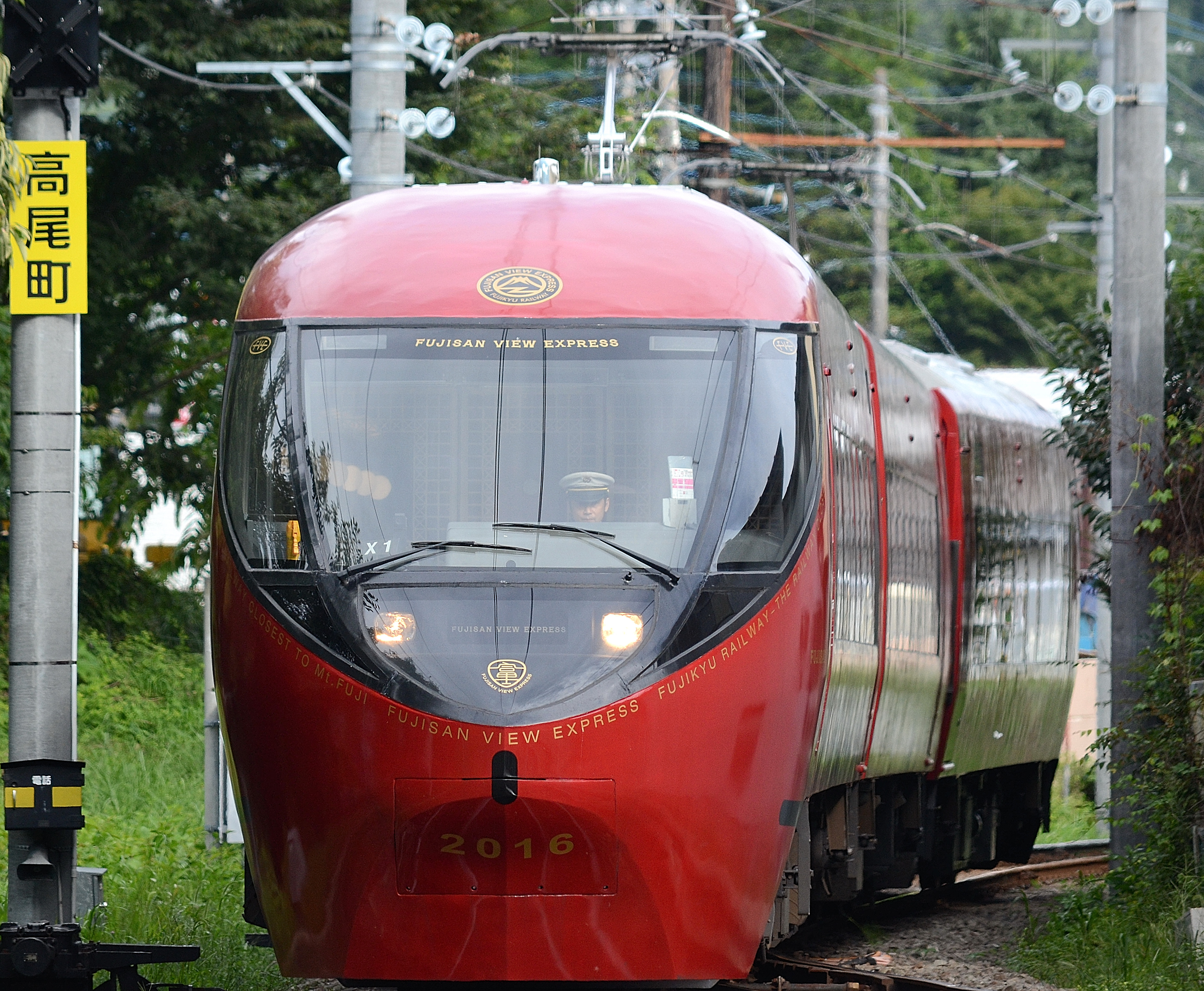 The Fujikyu 8500 series EMU approaching Kawaguchiko Station on a Fujisan View Express service